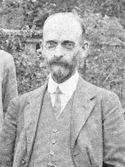 Percy Ireland Lathy at the Hill Museum, July 20, in Witley, Surrey